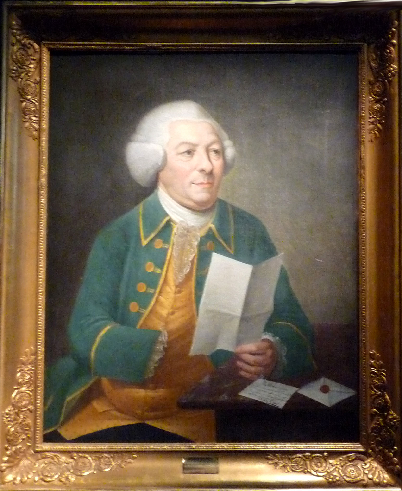 Portrait of Cerf Berr (1726-1793)